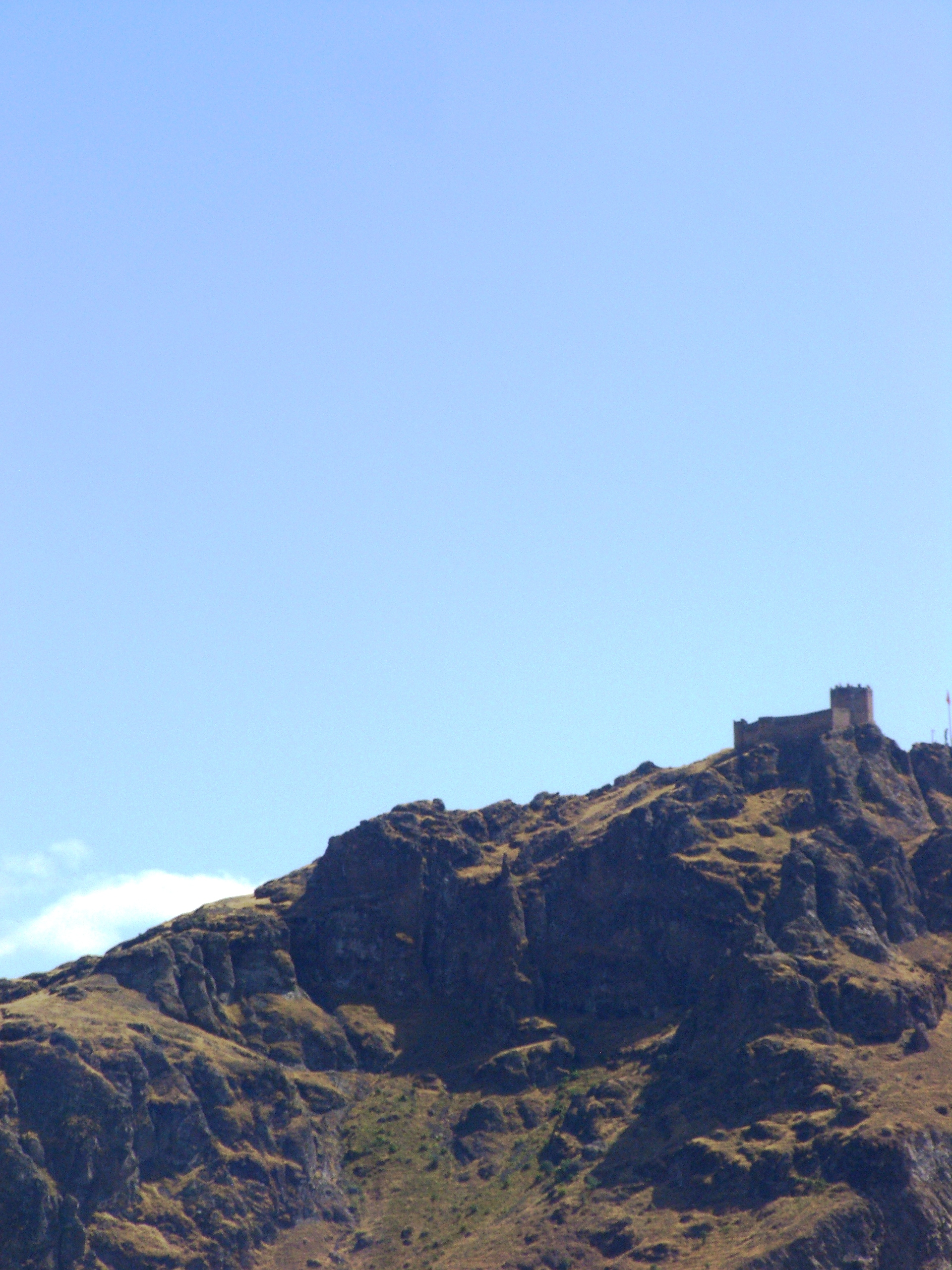 A view of ancient Şebinkarahisar Castle from the norteastern side. It is located on a hill adjacent to the city center.